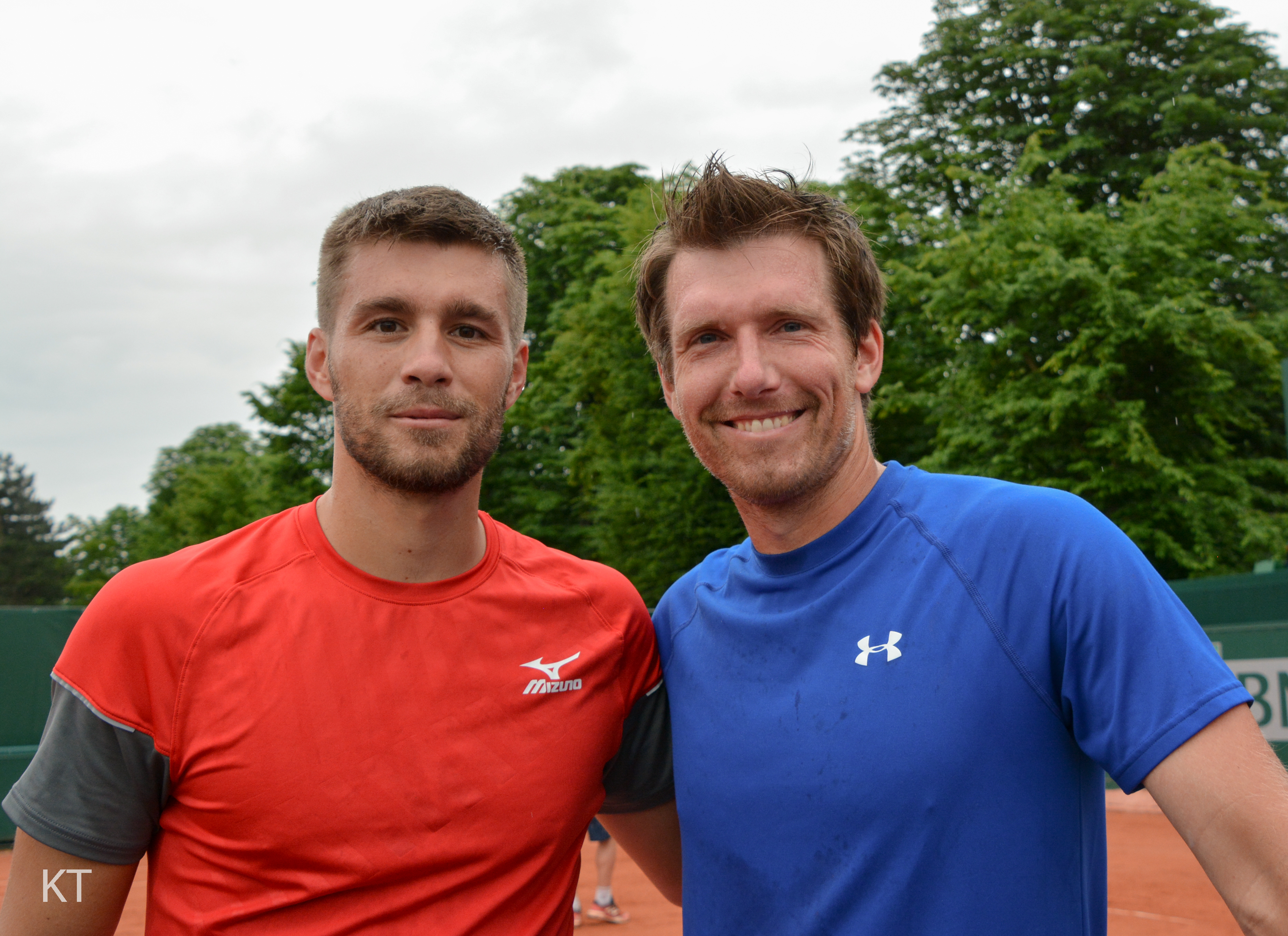 After their first round win. Day 3 of Roland Garros 2018.